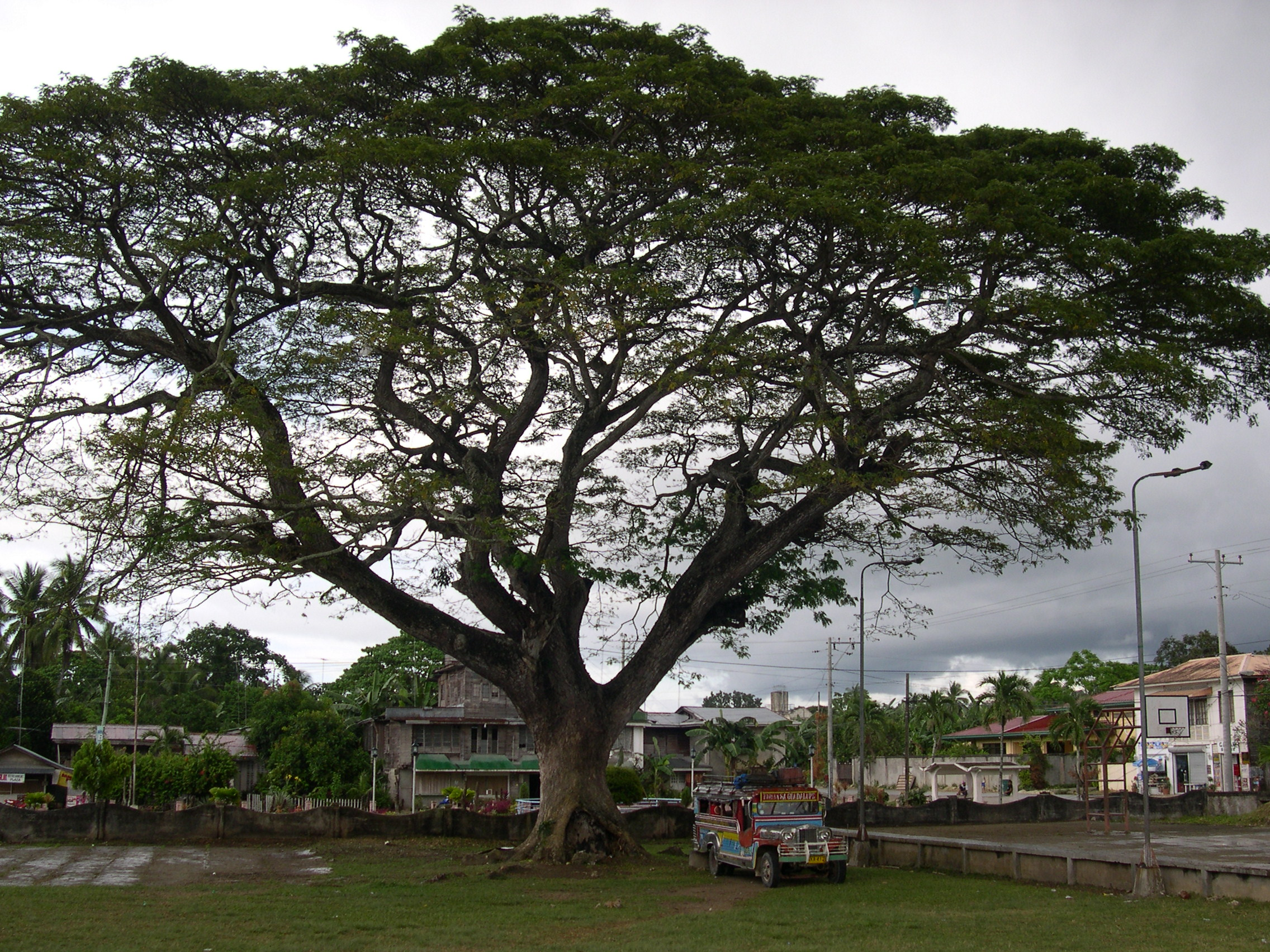 An amazing tree in front of the church of Loon, Bohol, Philippines with under it a jeepney waiting to leave